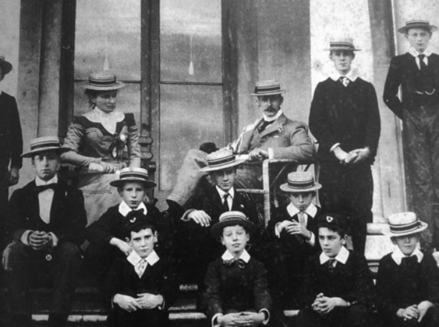 Wilfred and Mary Inman with their pupils at Strickland House in 1899